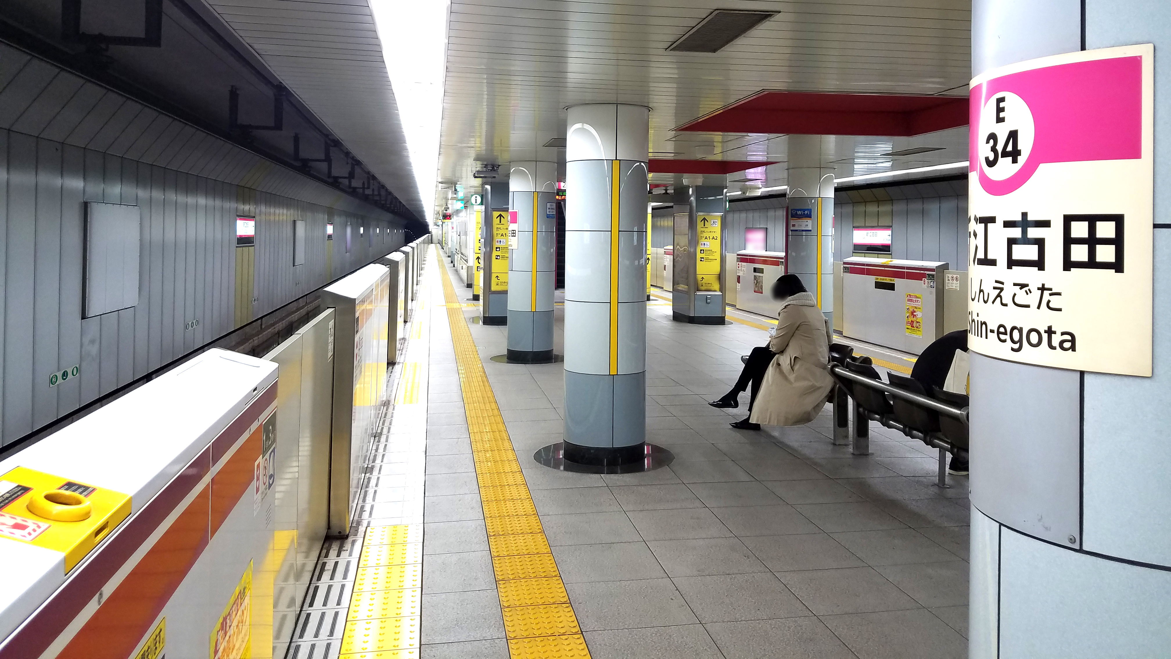 The platform at Shin-egota Station on the Toei Ōedo Line in Nakano city, Tokyo, Japan